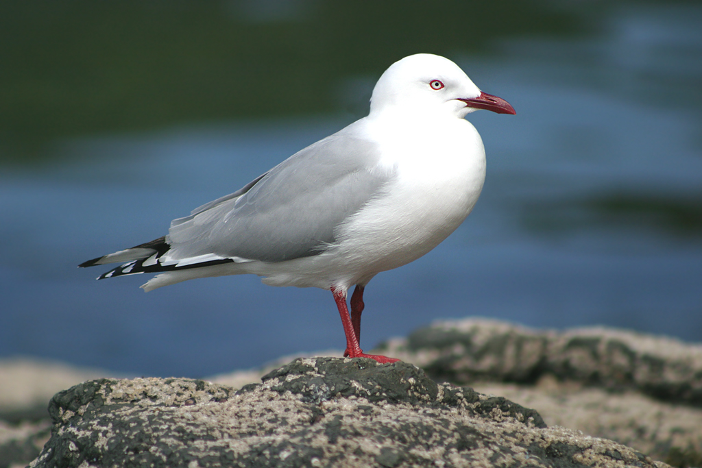 The Red-billed Gull Chroicocephalus scopulinus is a native bird of New Zealand with a Maori name of Tarapunga.